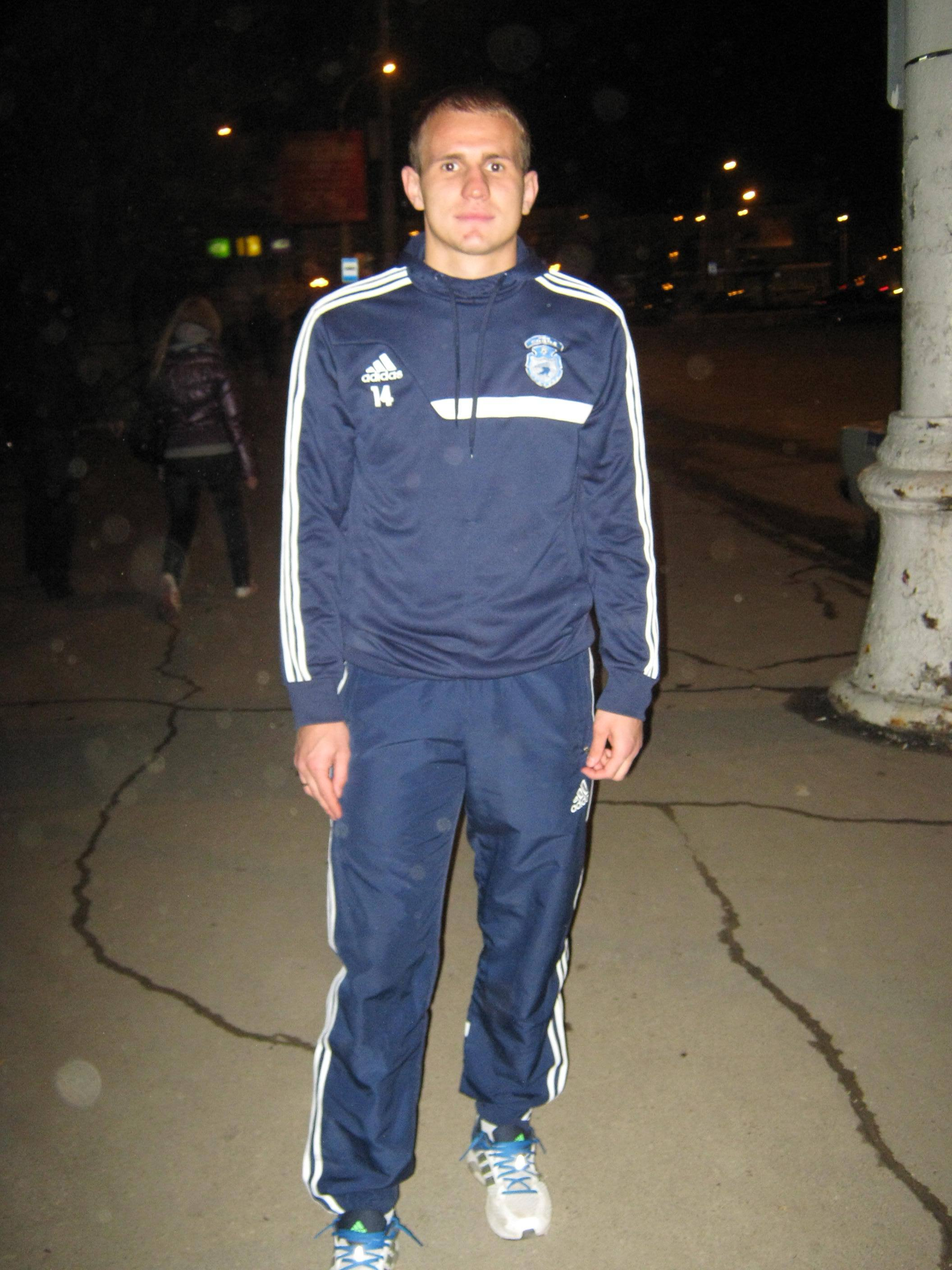 Nikita Yevgenyevich Andreyev, football player of PFC "Sokol" Saratov.